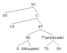 Strucuture of sentence as a Tense Phrase (expanded structure with CompPharase (CP))